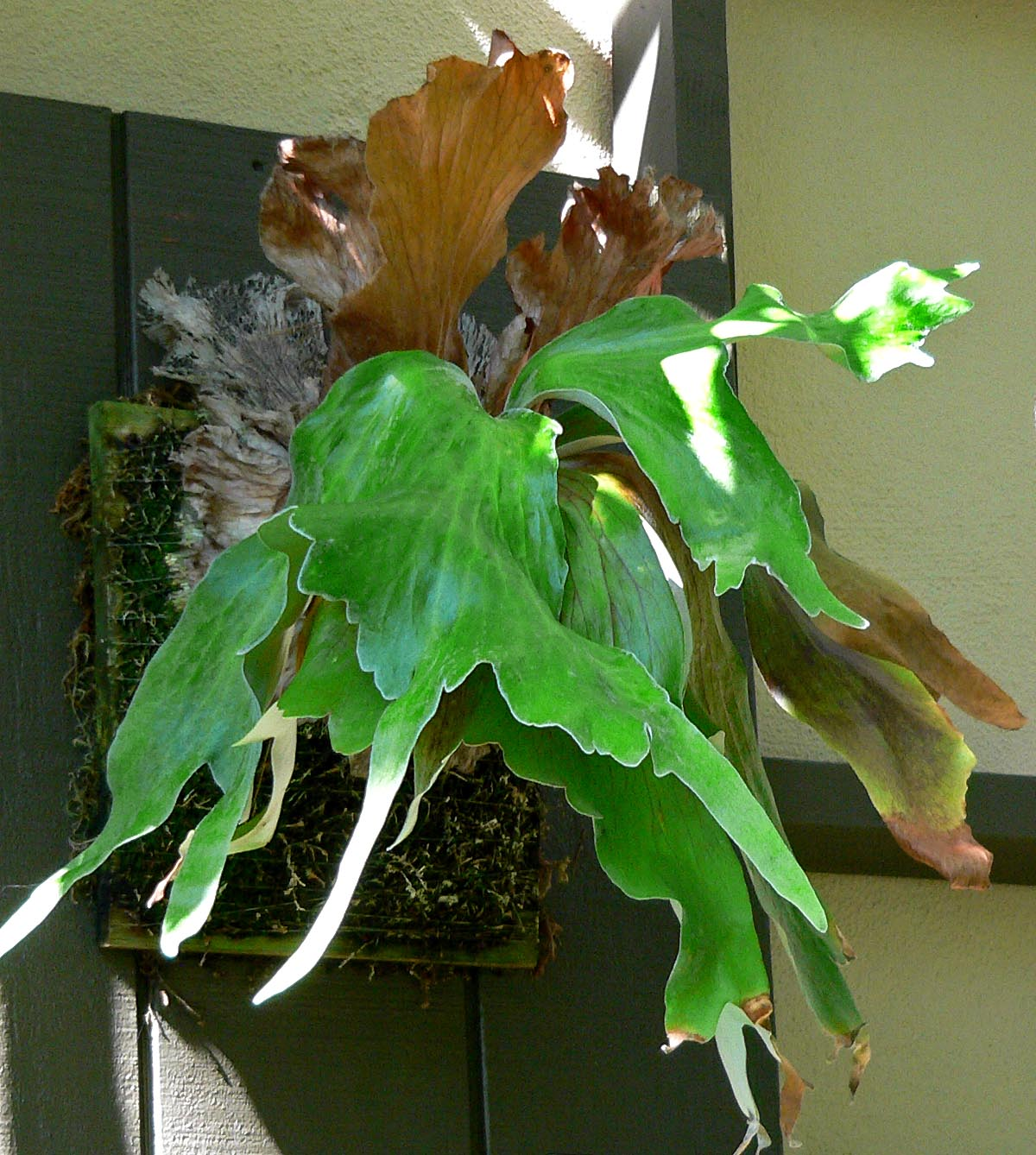 Photo of Platycerium stemaria at Balboa Park